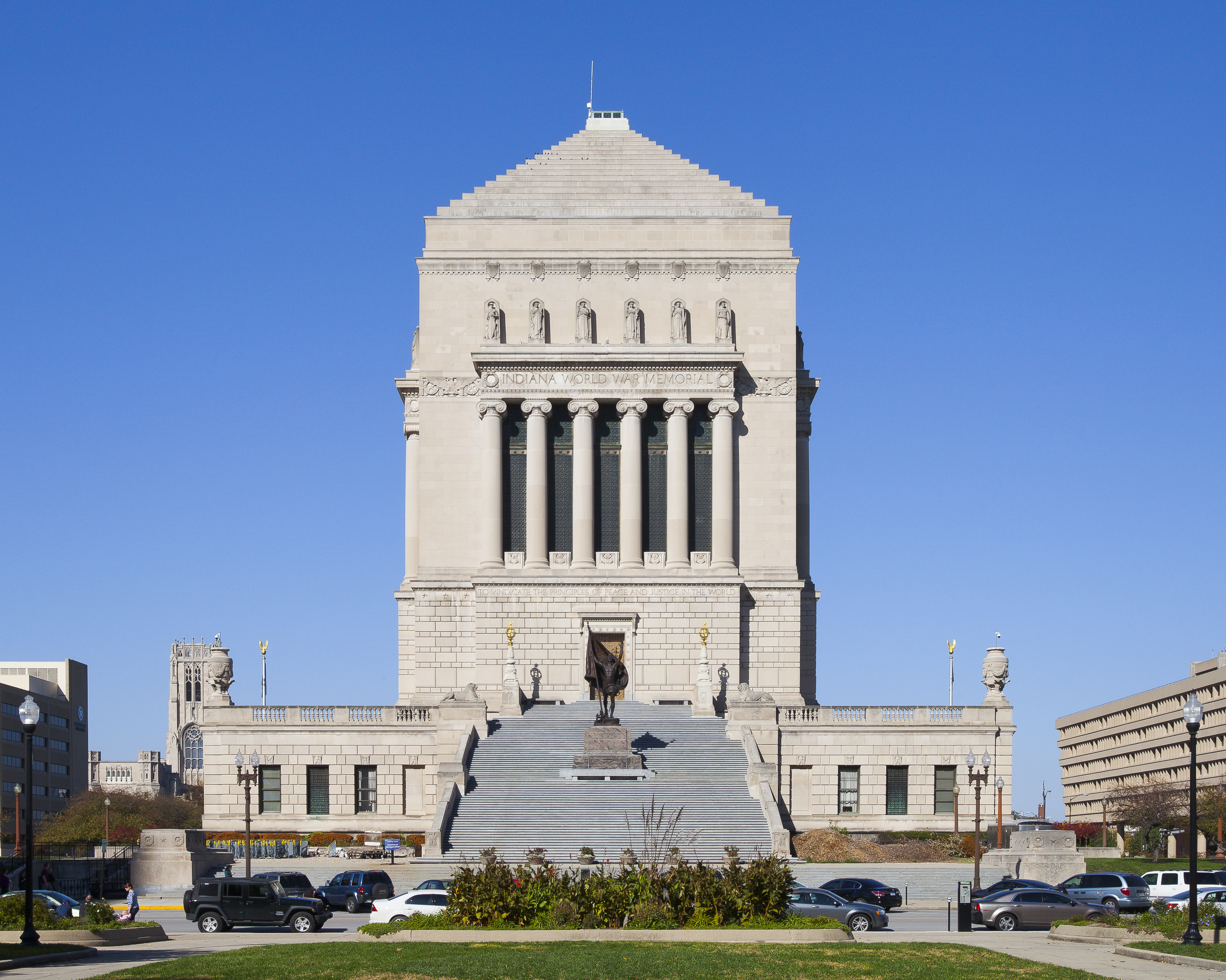 Indiana World War Memorial Building, Indianapolis, USA